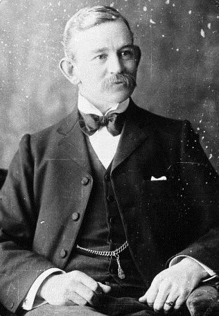 Photo of John Rigg in 1908